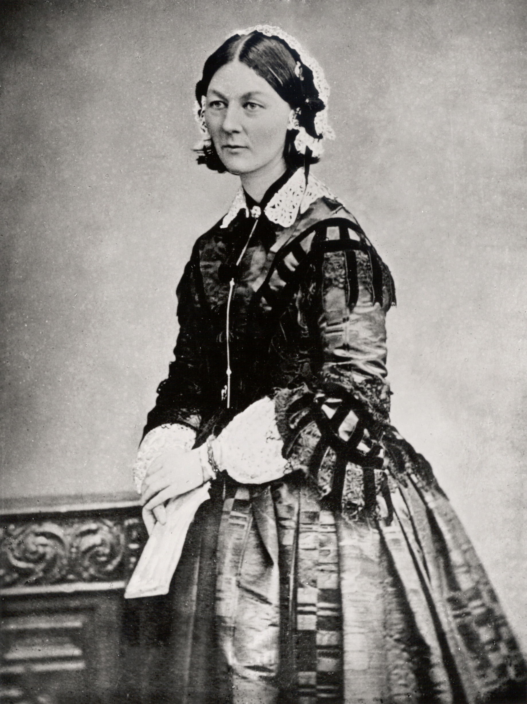 Three Quarter length portrait of Florence Nightingale